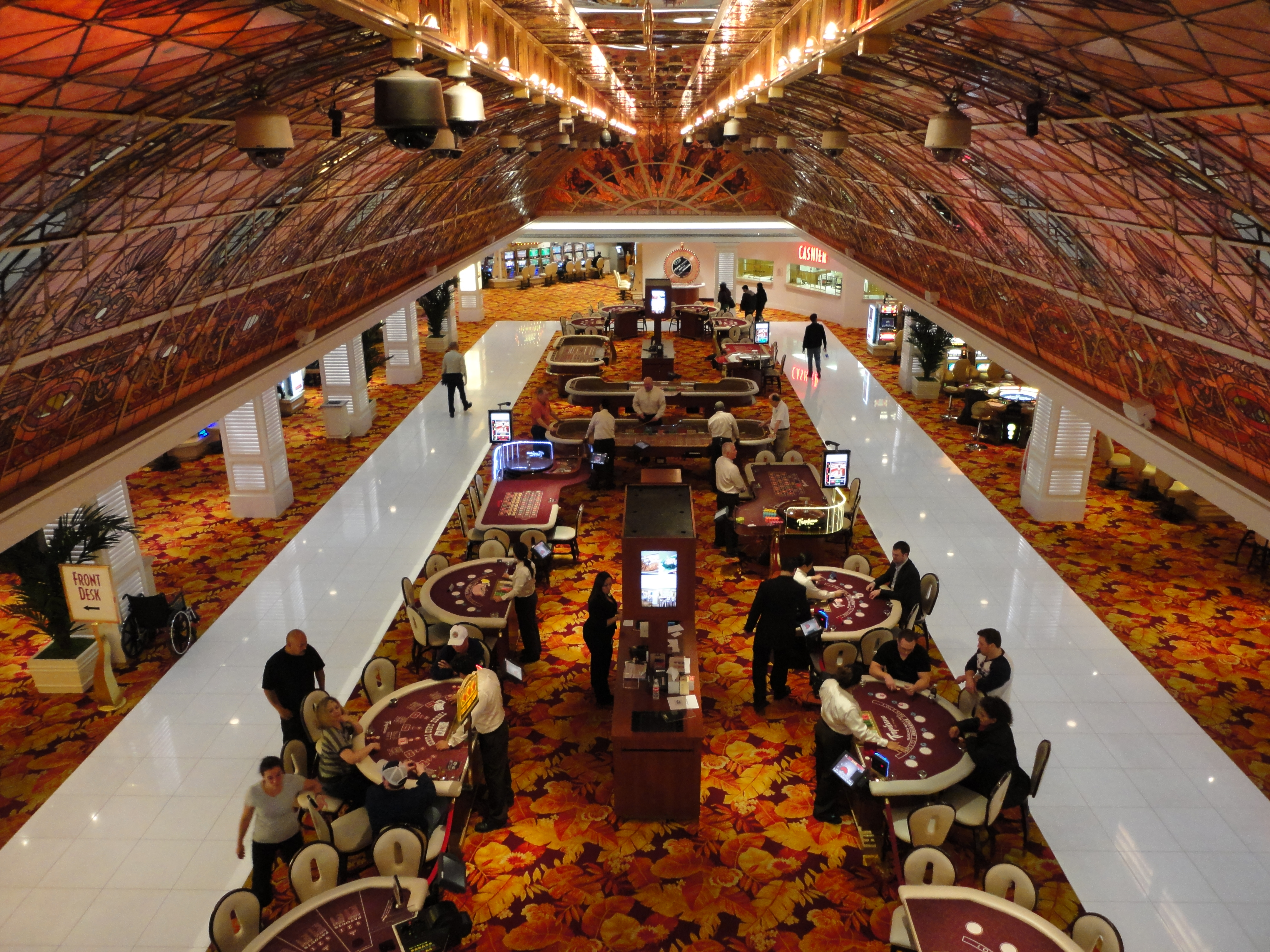 Casino tables in Tropicana Las Vegas, taken Jan 2012 from Mezza level